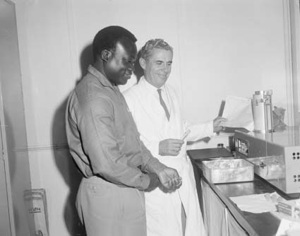 Mr Joseph K C Fumi-Fiamawle, a Ghana Agricultural officer of Dogbekofe near Abosome, has been in Australia on a six months tour of Queensland under the Special Commonwealth African Assistance Plan, studying the Australian beef cattle and dairying industries - Mr Fumi-Fiamawle in the laboratory of the Queensland Agriculture and Stock Department's Animal Research Institute with biochemist, Mr J M Harvey [photographic image]. Australian News and Information Bureau Photograph. 1 photographic negative: b&w, acetate. (source detail)